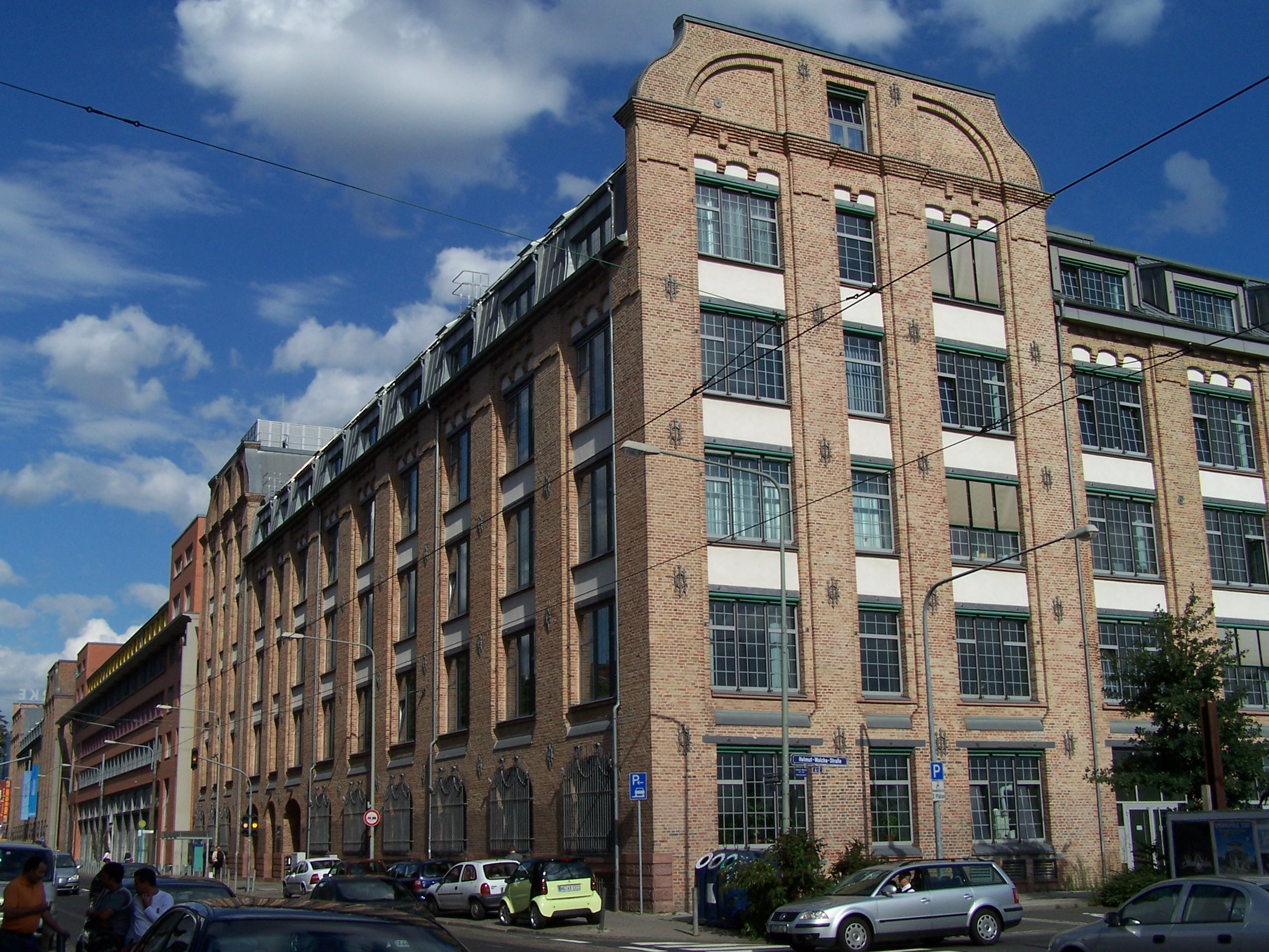 former building of Adlerwerke in Frankfurt on Main seen from Kleyer Street